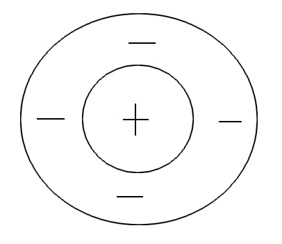 receptive field